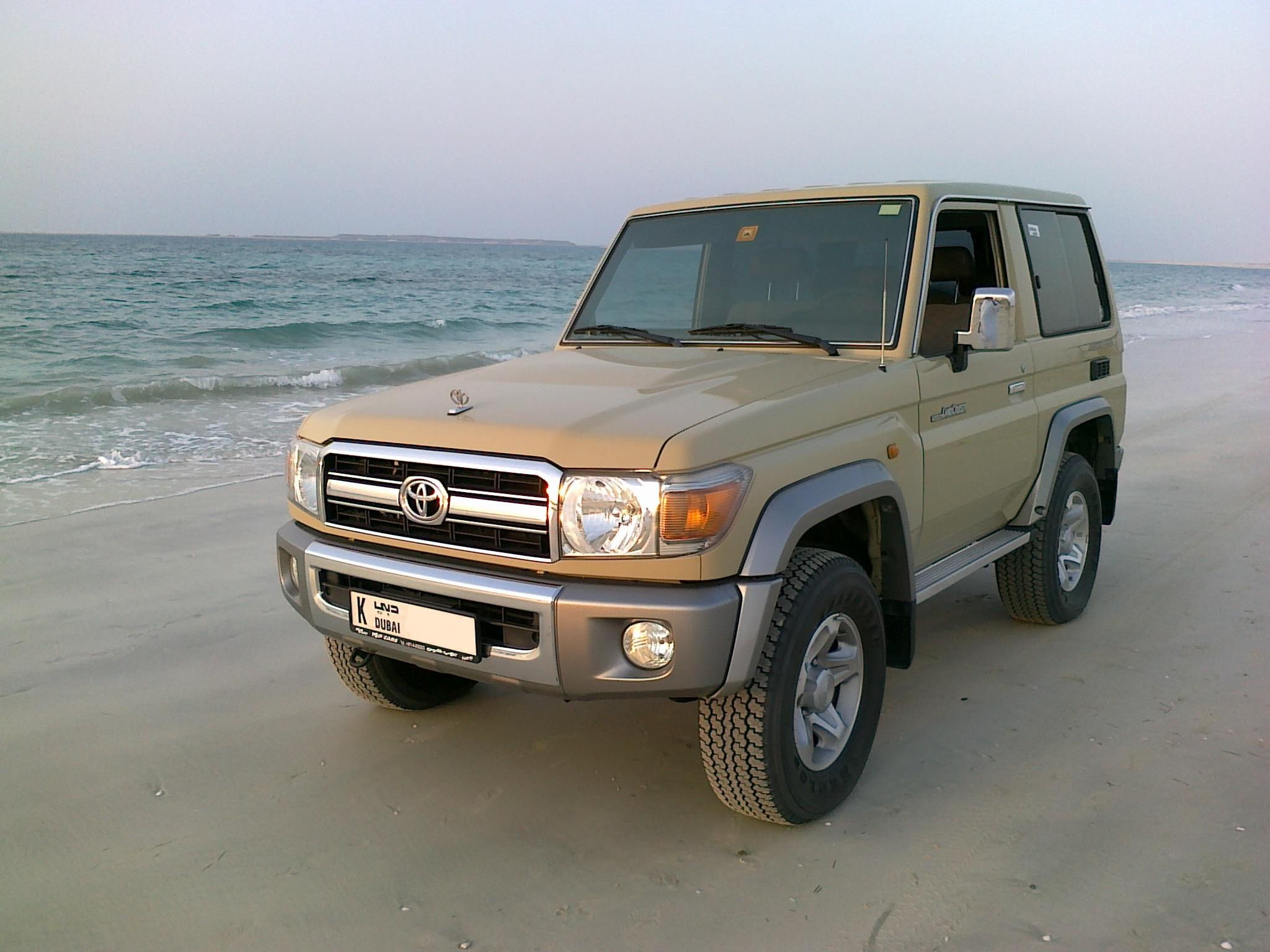 Toyota LandCruiser 70 - 2009